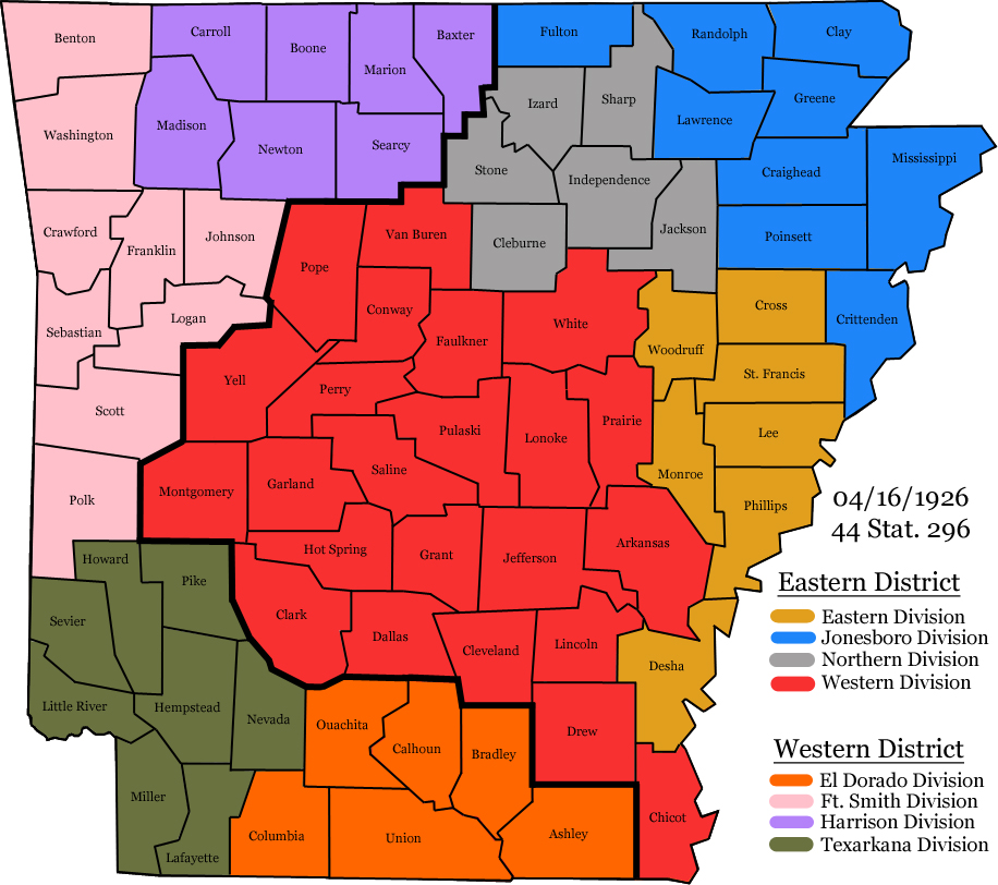 Arkansas districts - Apr 16, 1926